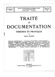 Front page of Paul Otlet's book Traite de Documentation.